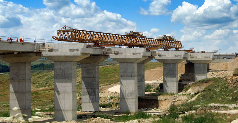 Girder launcher on Transilvania Motorway, Romania, 2b Section, km 27+700 viaduct